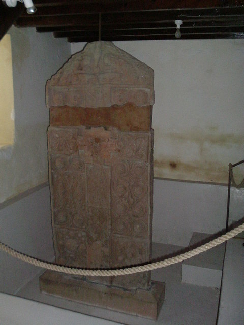 Christian Cross-slab The original from the churchyard; now kept inside the church.